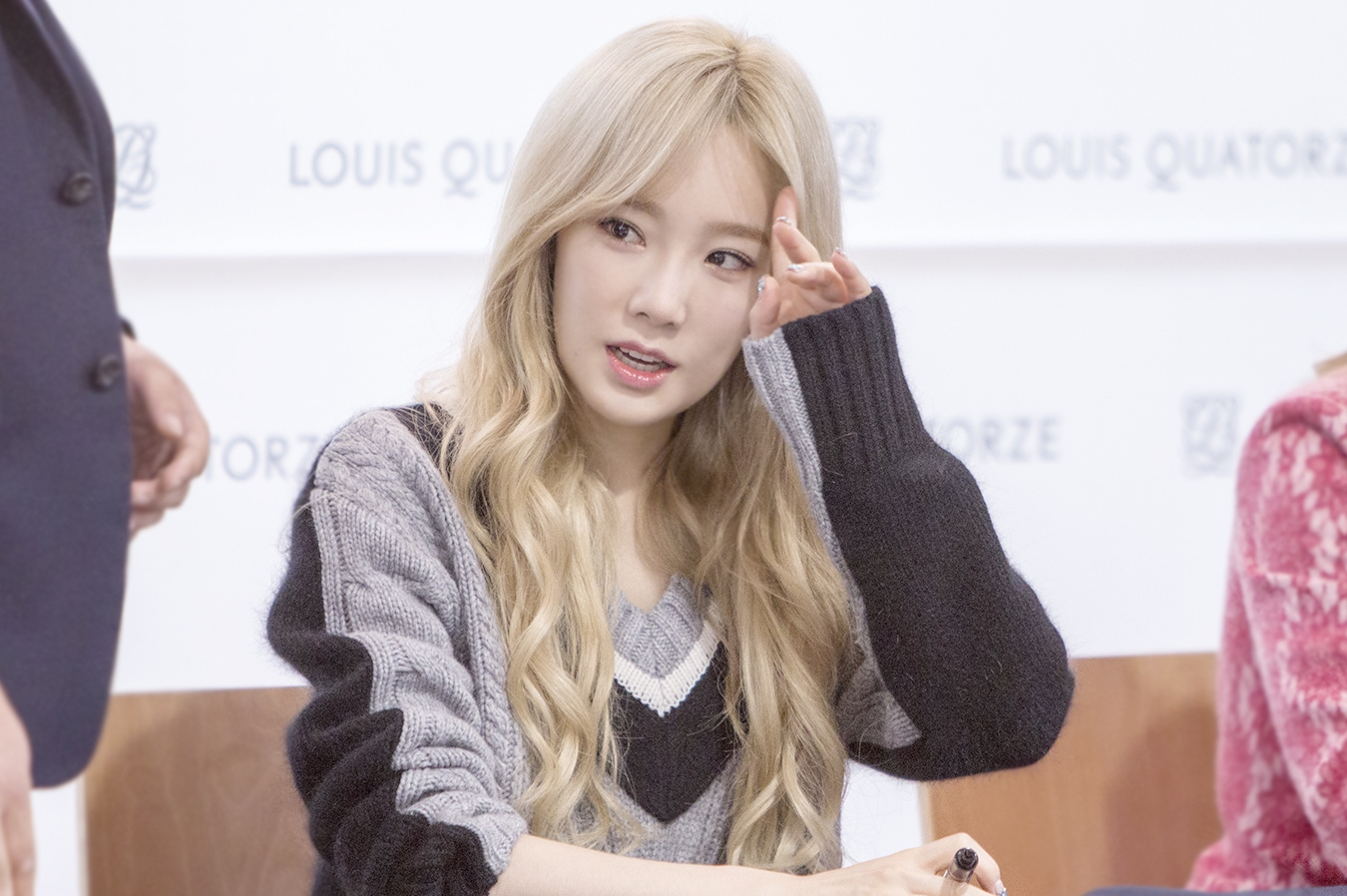 Taeyeon at a fan signing event for Louis Quatorze on November 27, 2015.